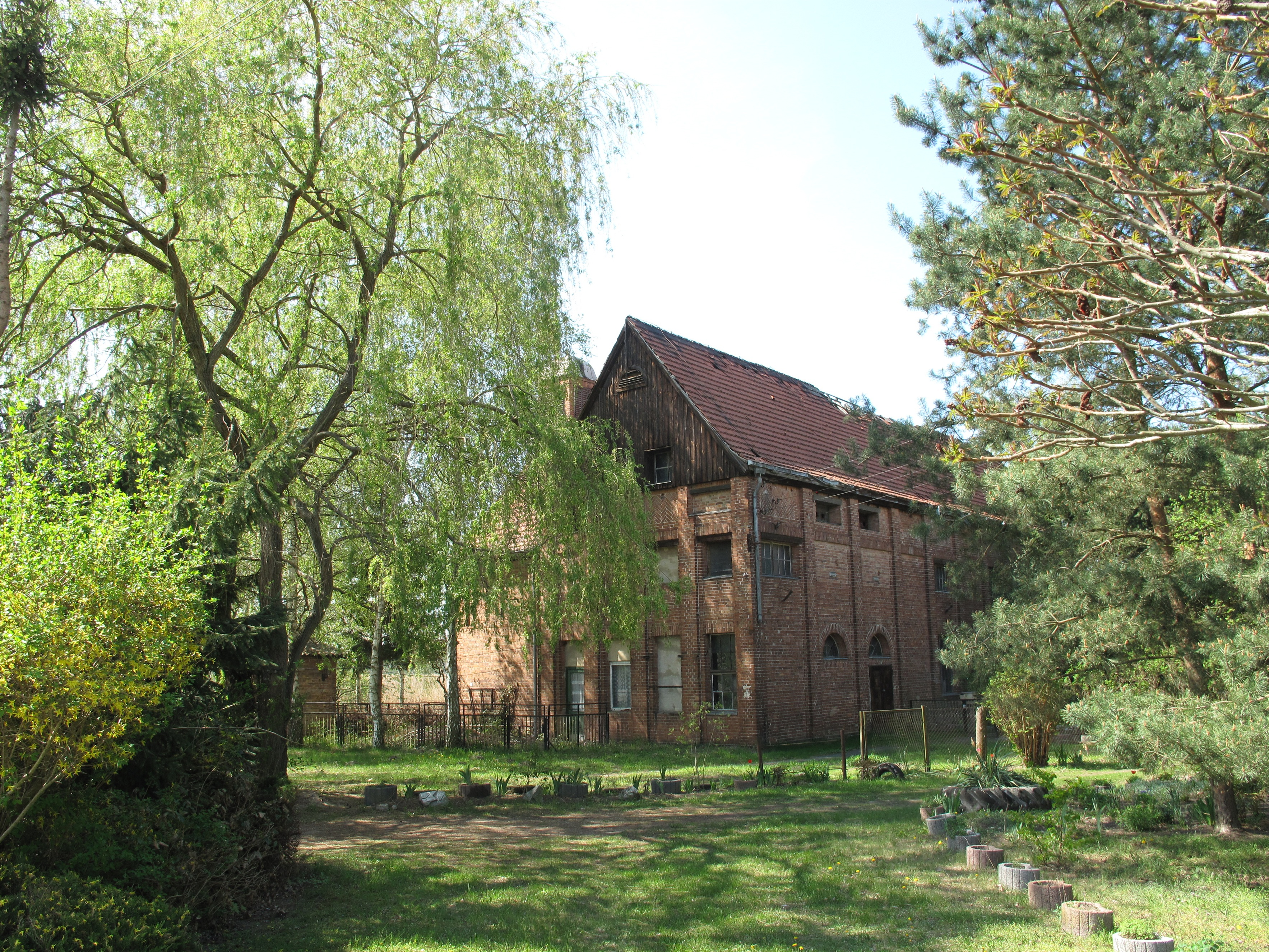 Former mill building on the Friedländer Strom in Neufriedland. Neufriedland is as part of Altfriedland, a village of the municipality Neuhardenberg in the District Märkisch-Oderland, Brandenburg, Germany.